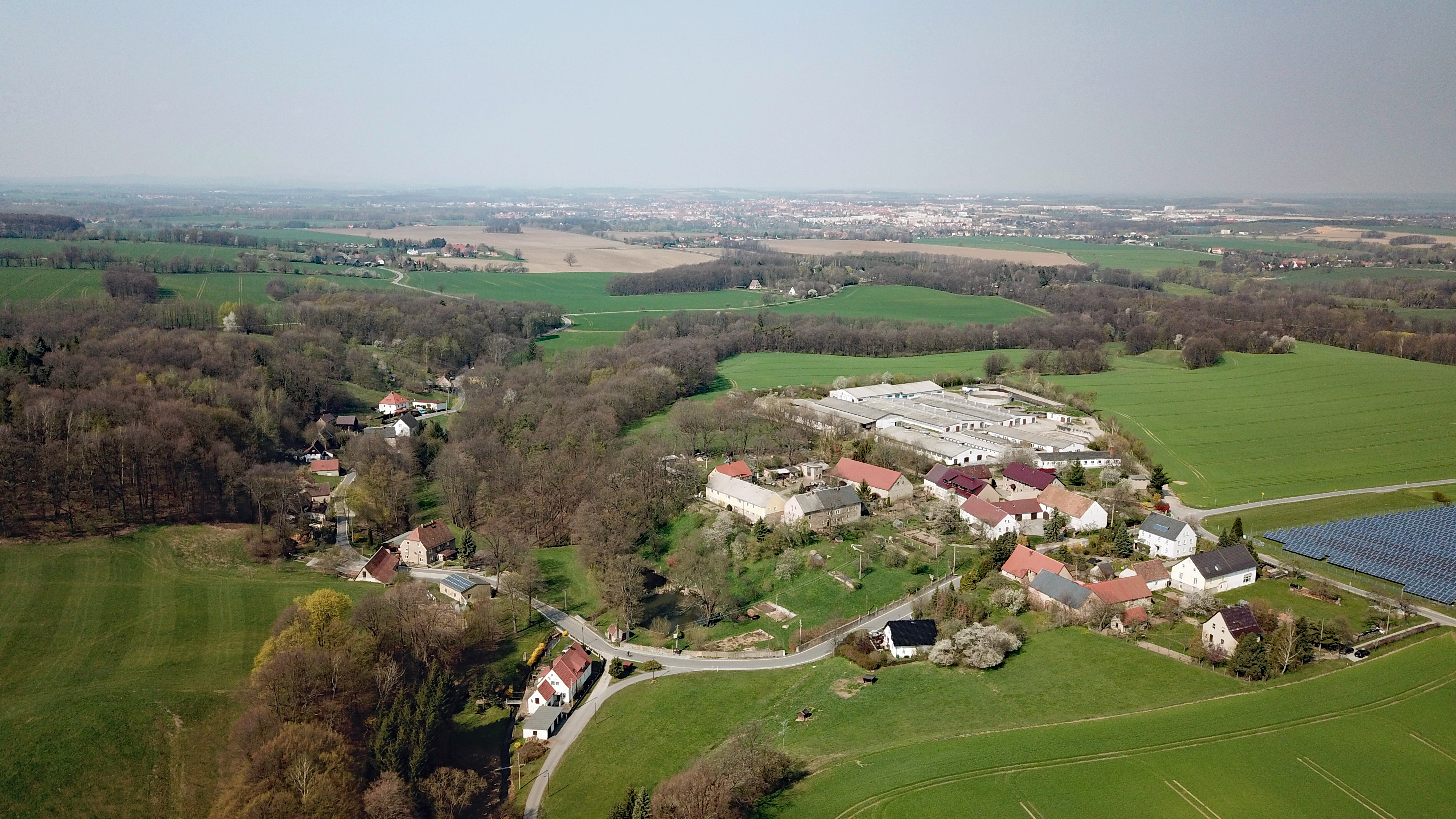 Blösa (Kubschütz, Saxony, Germany) Hornjoserbsce: Powětrowy wobraz Brězowa Dieses Foto wurde mit einem Quadcopter innerhalb der RMZ des Flugplatzes EDAB aufgenommen. Der Flugleiter wurde am Aufnahmetag telephonisch über Ort und Zeit informiert und hat zugestimmt. Der Flug erfolgte auf Grundlage der Allgemeinverfügung der Landesdirektion Sachsen zur Erteilung der Betriebserlaubnis für unbemannte Luftfahrtsysteme und Flugmodelle gemäß § 21a LuftVO und Zulassung von Ausnahmen von Betriebsverboten gemäß § 21b LuftVO für den Freistaat Sachsen.